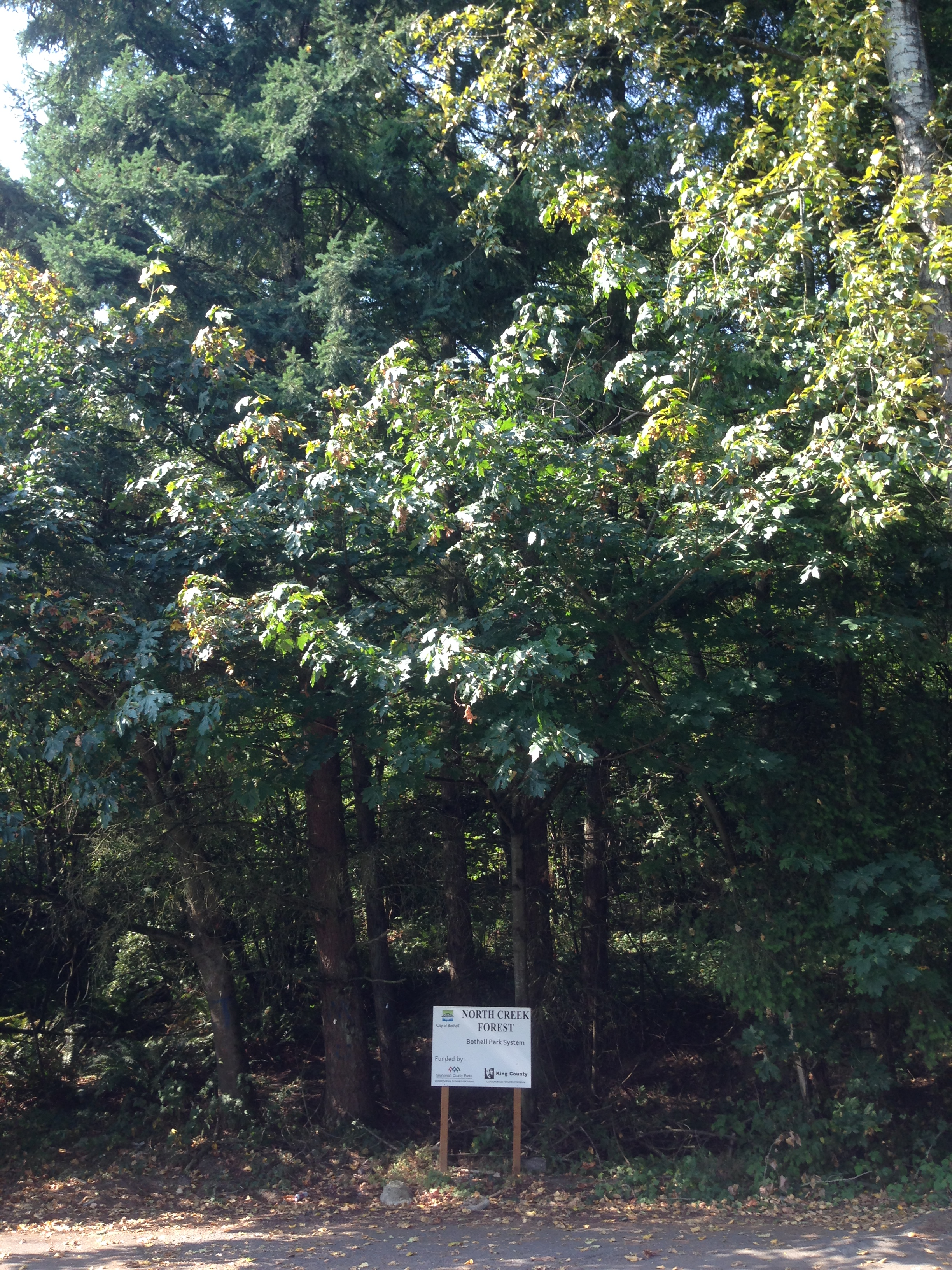 North Creek Forest in Bothell, Washington, which straddles the King and Snohomish County border. This sign is just north of the common county border.